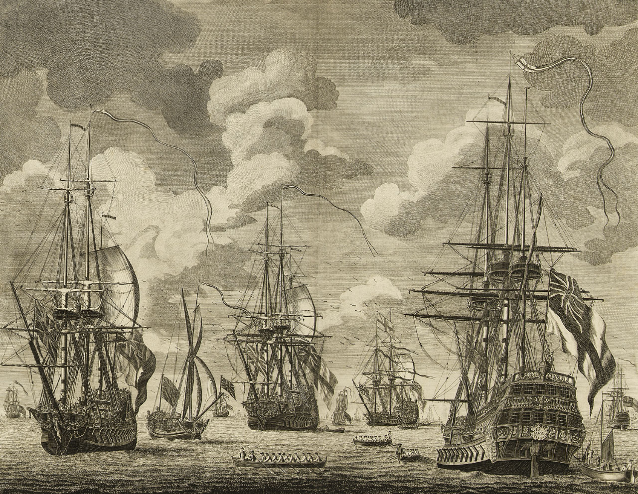 "To the Honble Sir Charles Howard Lieutenant General...This Plate Being on one side, an exact stern-view of the 'Jason';[1] on the other, the Head view of the 'Ruby',[2] in the middle is that of the 'Diamond',[3] three of the six French ships of war, taken by the British Fleet 3rd May, 1747[4] under the command of...Lord Anson and Sir Peter Warren "